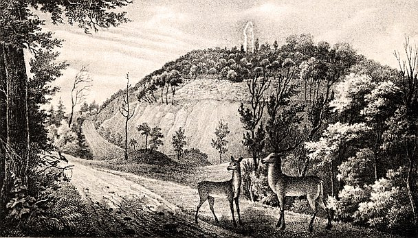 Allerburg castle